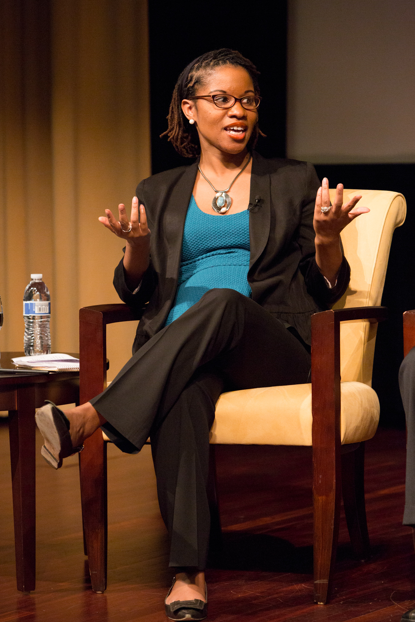 First Ladies; Krissah Thompson, Washington Post Writer, discusses First Ladies